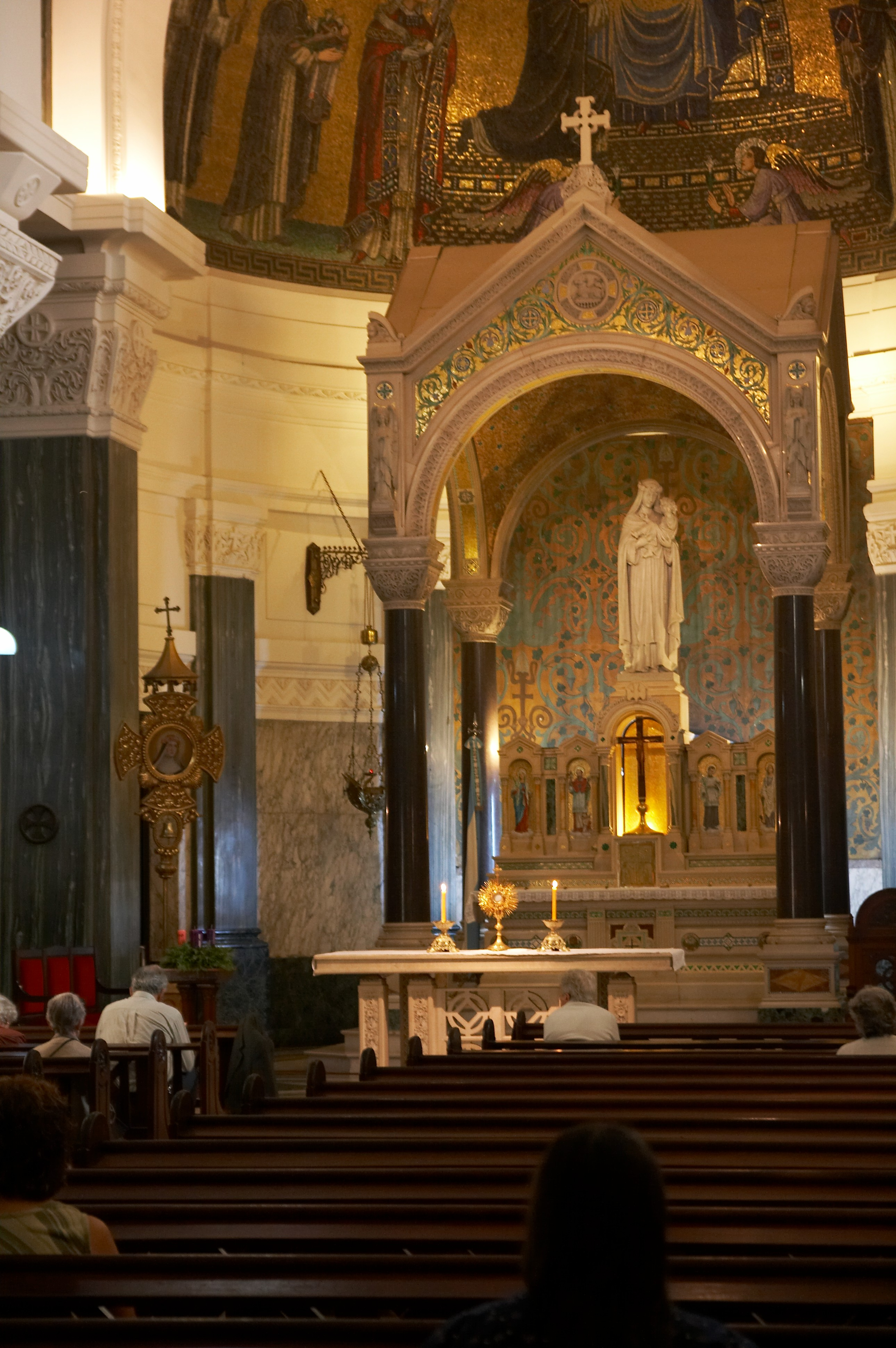 Santa Rosa de Lima basilica, Buenos Aires, Argentina.